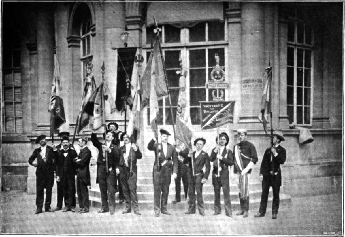 Students of the Association Générale des Étudiants de Caen on the Day of the Inauguration of the New Palais des Facultés by the City of Caen, on June 2nd & 3rd, 1894.